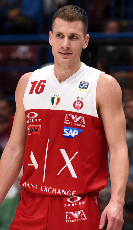 Foto a cura di Claudio Degaspari